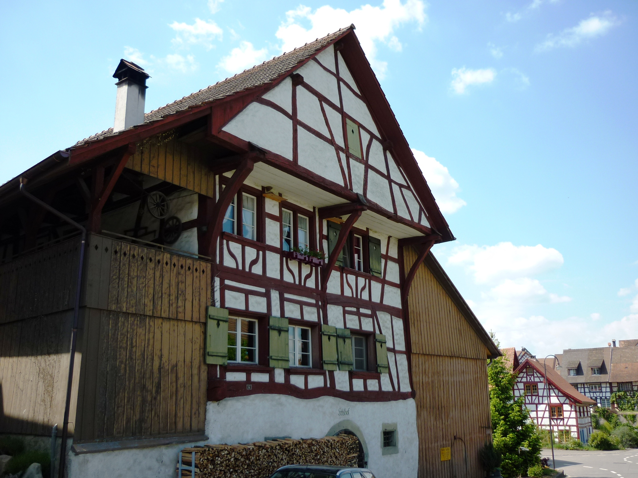 Kehlhof, Marthalen, Switzerland